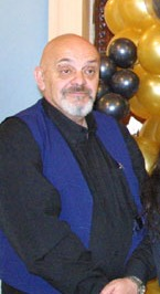 Jacov Podolny at a "What? Where? When?@ tournament in Izhevsk, November 2003